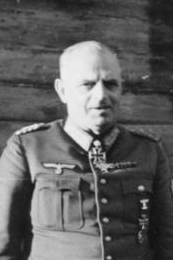 Title: Russland, Generalfeldmarschall Ernst Busch Extra information: Rußland.- Generalfeldmarschall Ernst Busch People in the image: Busch, Ernst: Generalfeldmarschall, Oberbefehlshaber 16. Armee, Ritterkreuz (RK), Heer, Deutschland (GND 118665405) Factual corrections and alternative descriptions are encouraged separately from the original description. Additionally errors can be reported at this page to inform the Bundesarchiv. Original historic description